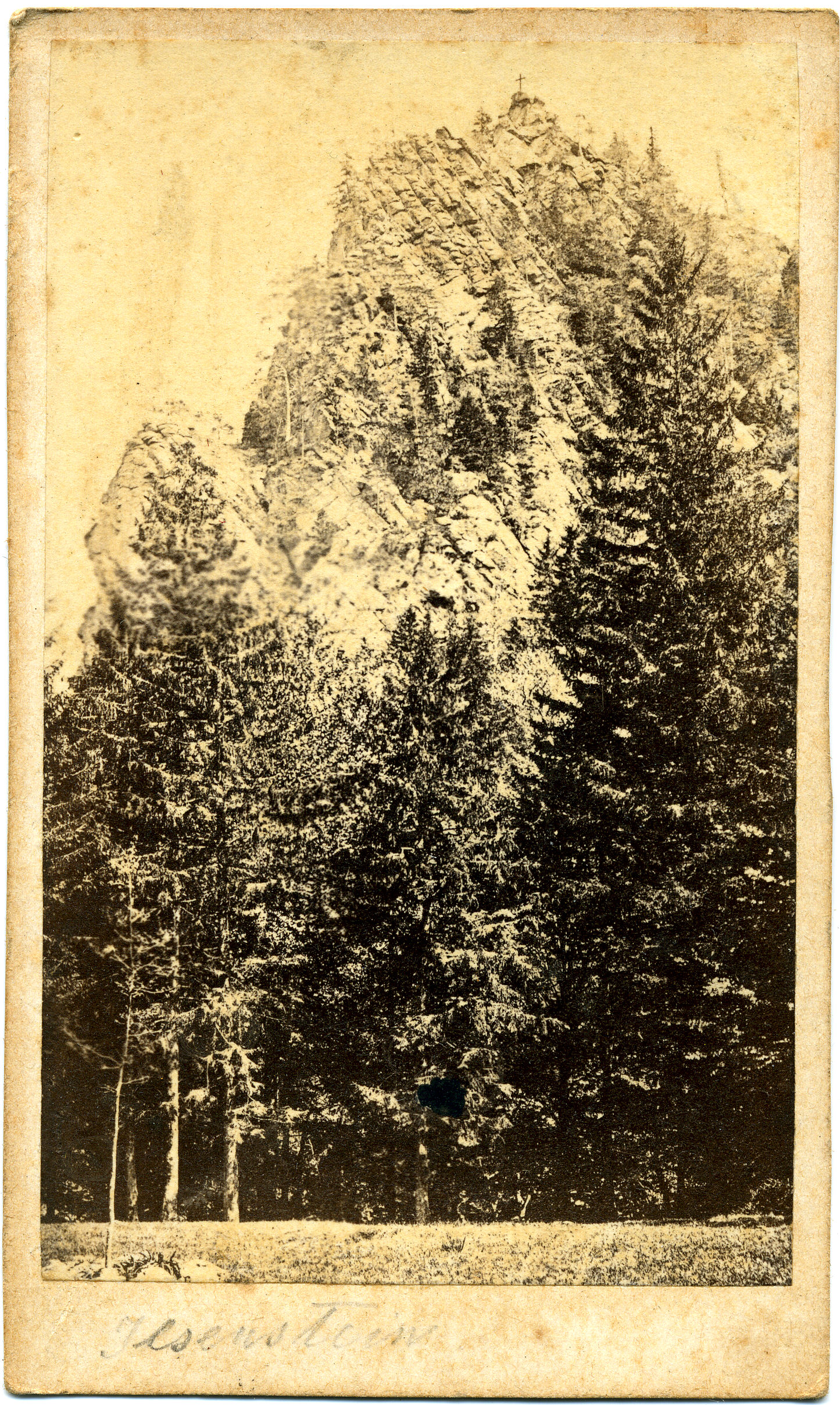 the Ilsenstein ca. 1880-1890